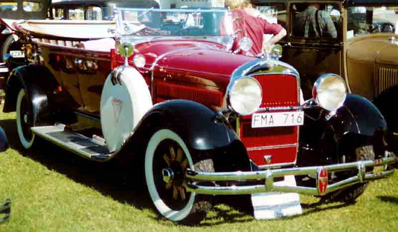 Greater Hudson Phaeton (1929)